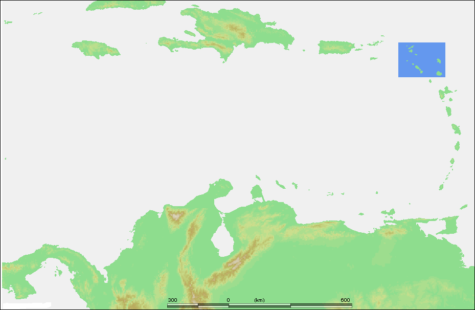 Caribbean - SSS islands